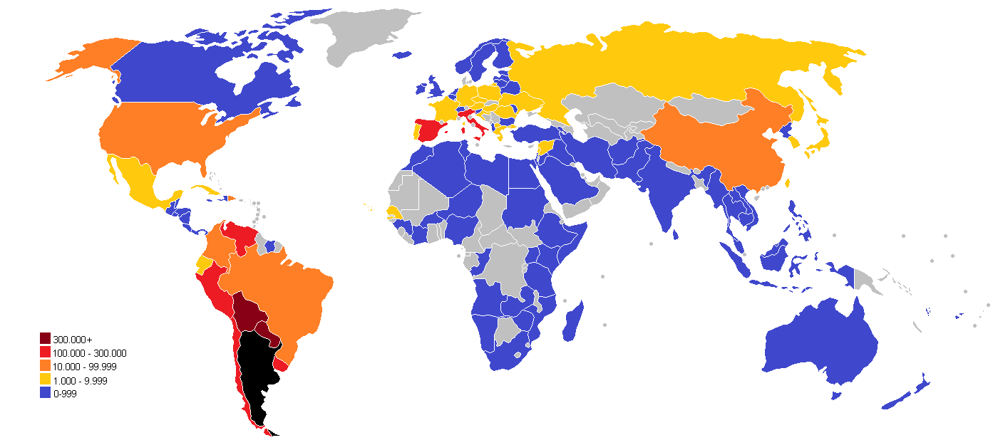 Immigration to Argentina, by country of birth, according to data from the National Statistics and Censuses Institute (NSCI) and National Migration Board (NMB) government agencies, the 2010 National Census, and the United Nations (UN).